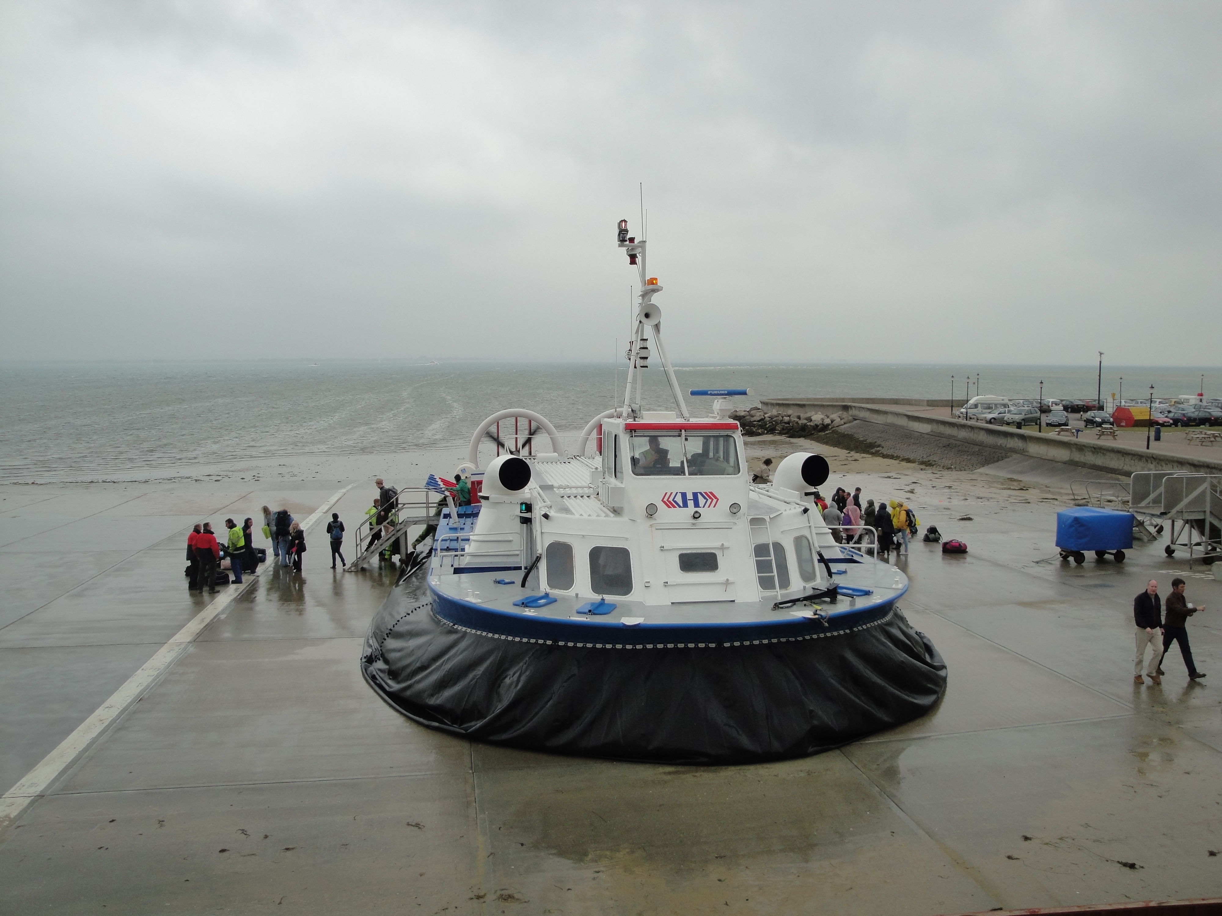 A Hovercraft owned by Hovertravel having just arrived at the Ryde, Isle of Wight terminal. The photo was taken during the Thursday of the Isle of Wight Festival 2010 hence the large amount of luggage visible on the ground.